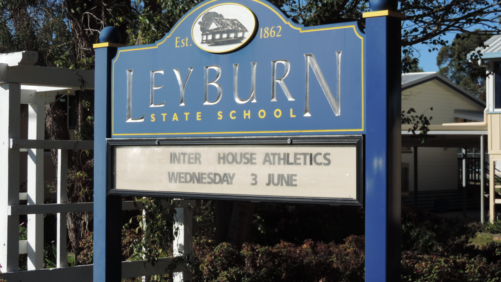 Sign, Leyburn State School, 2015